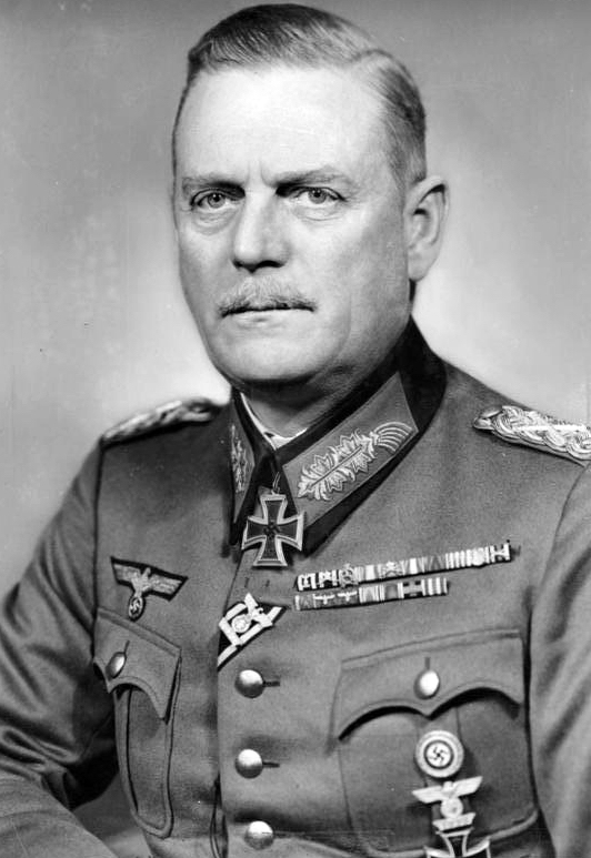 Cropped photo of Field Marshal Wilhelm Keitel uploaded by Emiya1980